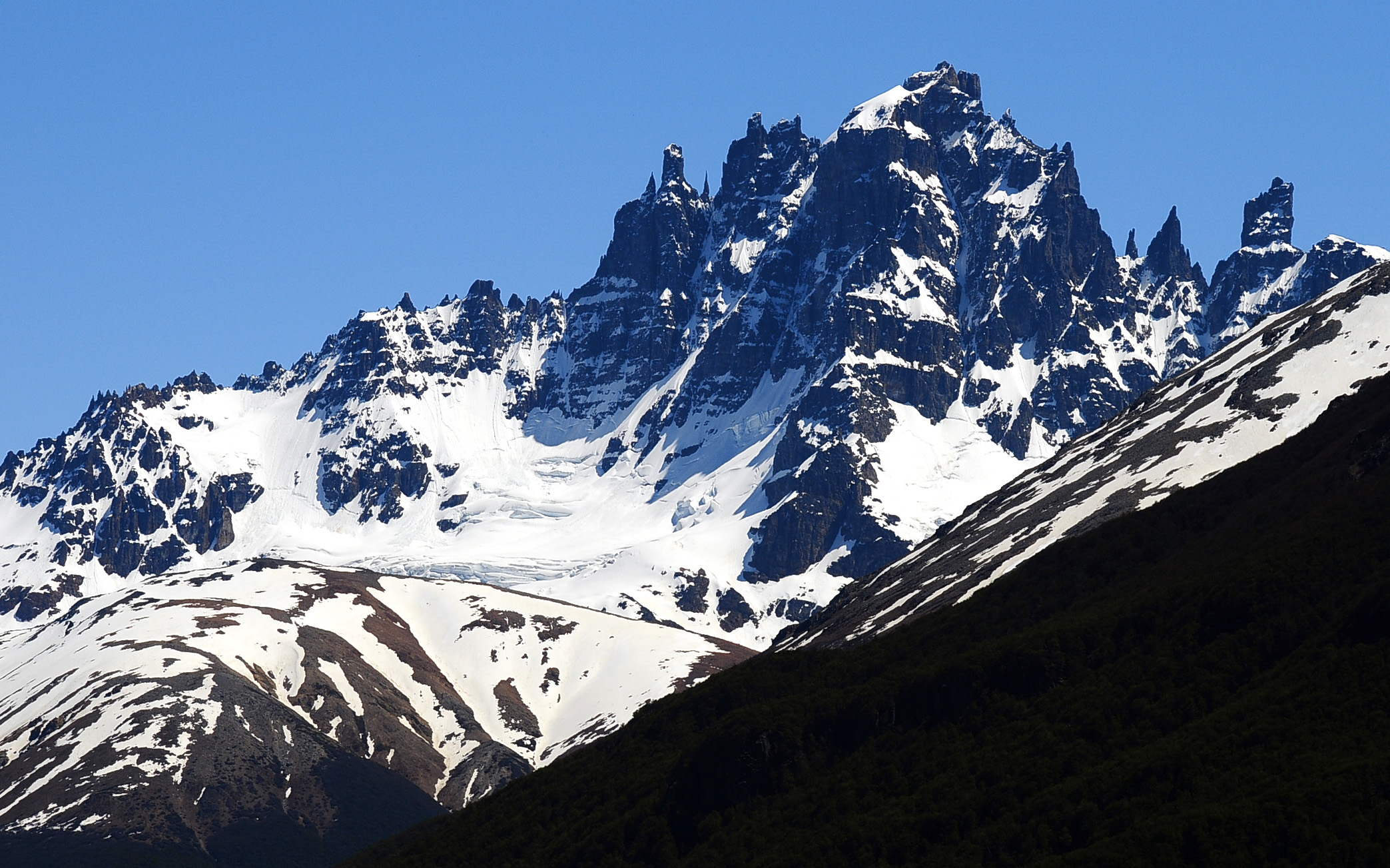 Summits of the mountain. Cerro Castillo Nature Reserve, Aysén, Chile